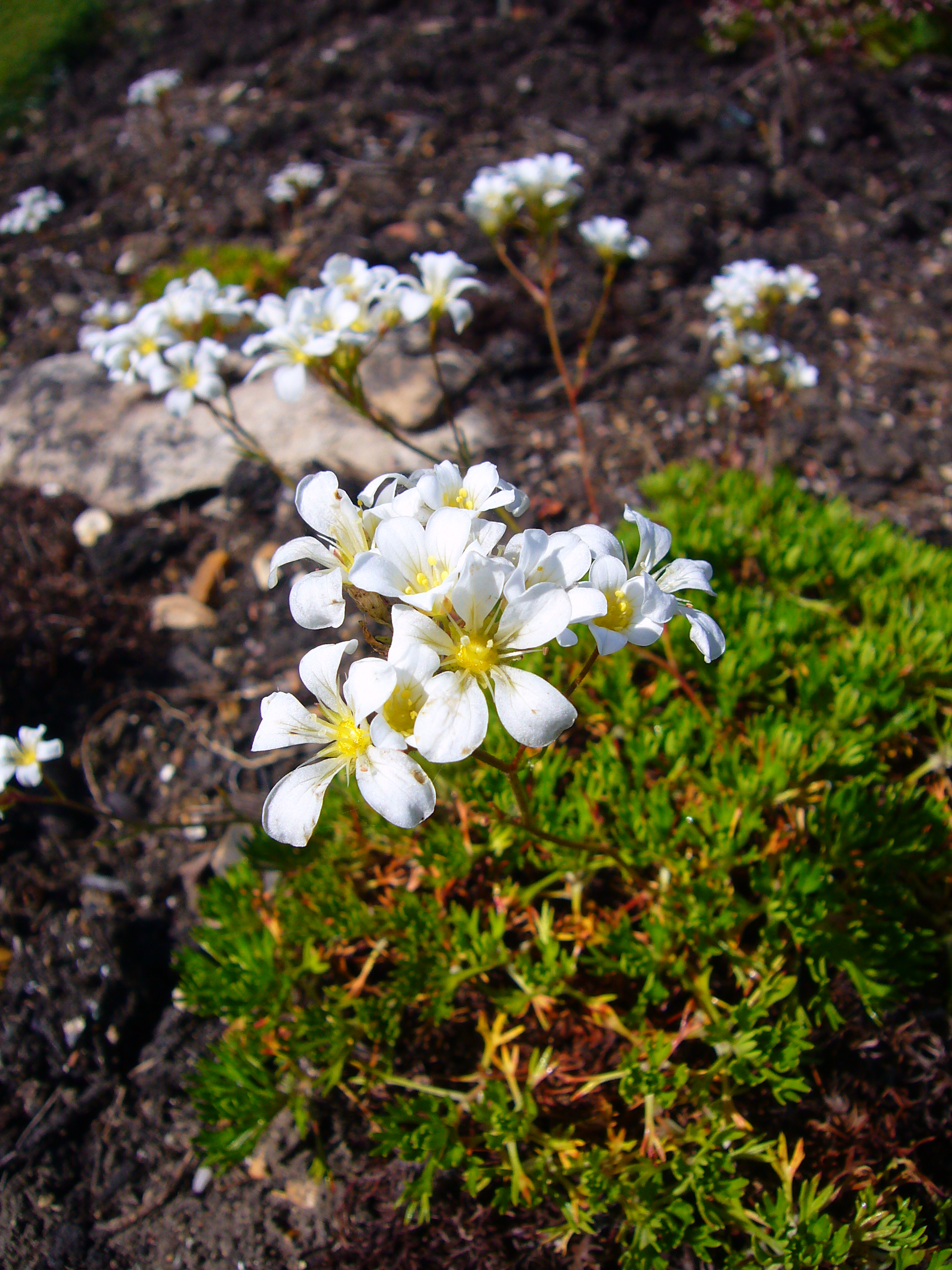 Saxifraga canaliculata (flower) (photo taken in the Cambridge University Botanic Garden)